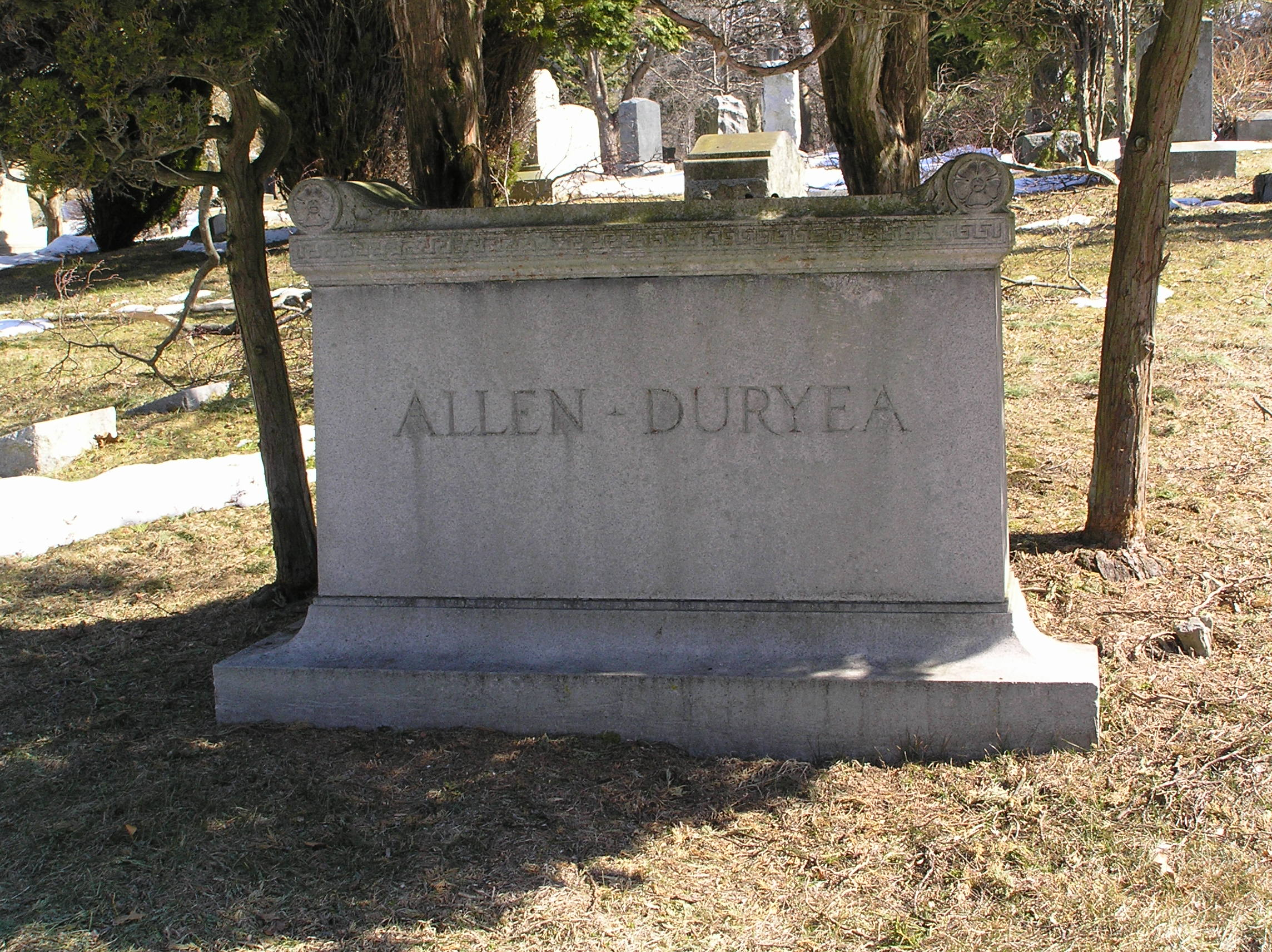 The gravesite of Viola Allen in Sleepy Hollow Cemetery